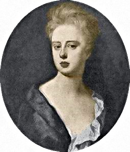 Sarah Churchill, Duquesa de Marlborough (1660-1744), por vezes referida como Sarah Jennings